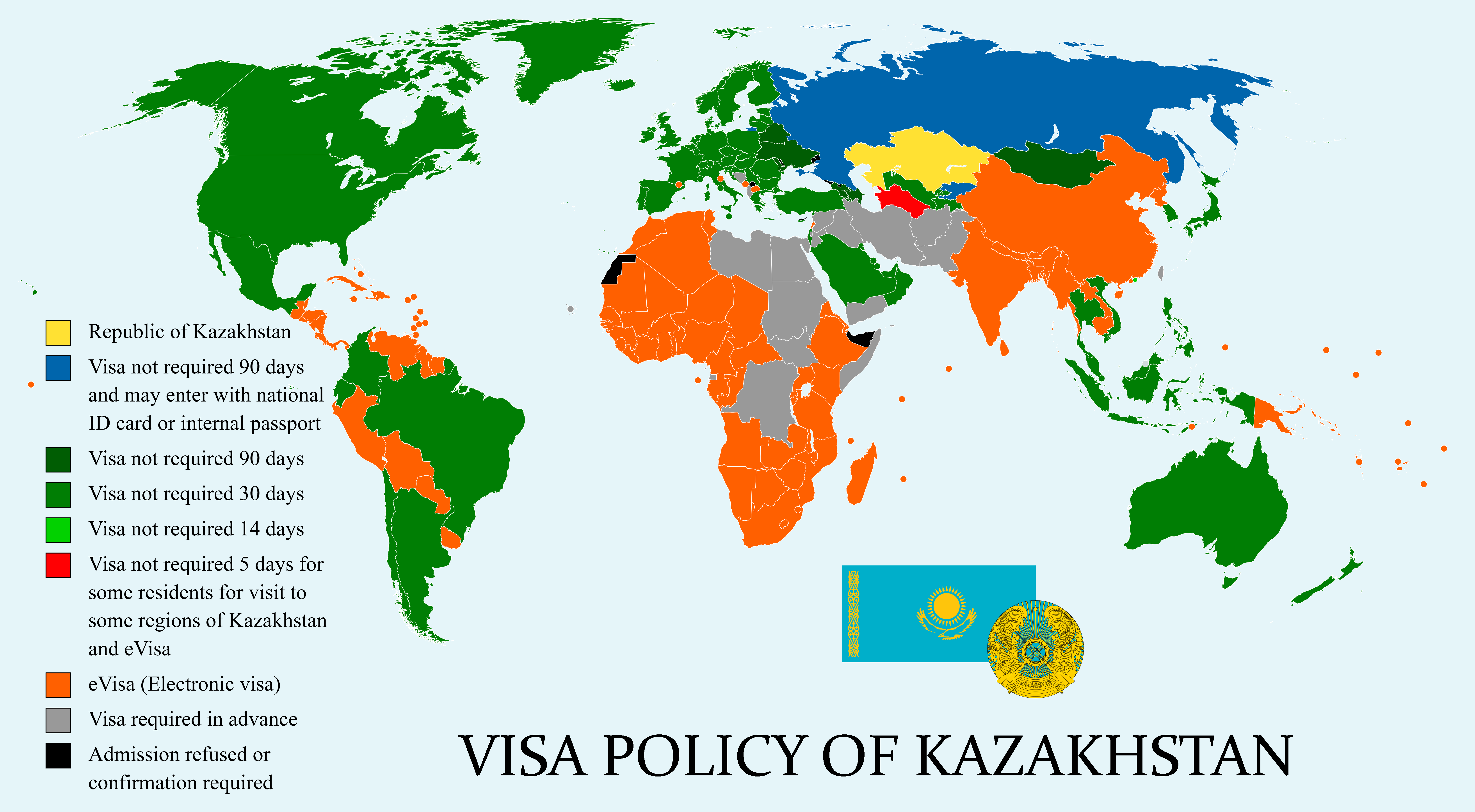 Visa policy of Kazakhstan Kazakhstan Visa exempt (90 days) Visa exempt (30 days) Visa exempt (14 days) Visa required